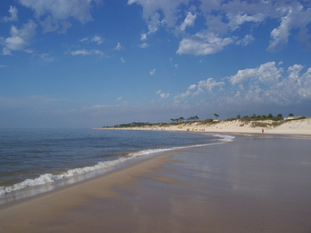 View towards the west of the beach of Parque del Plata on the coast of Río de la Plata